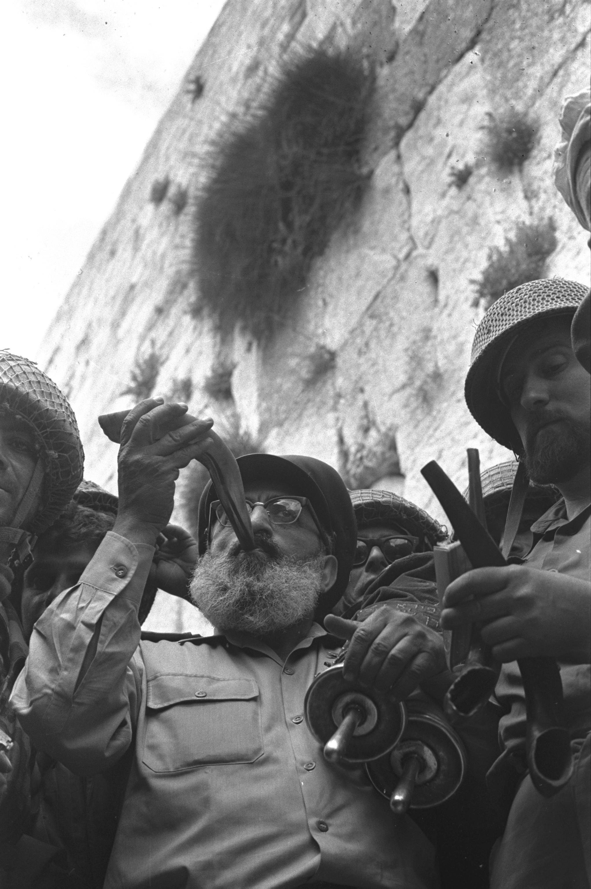 Six Day War. Army chief chaplain rabbi Shlomo Goren, who is surrounded by IDF soldiers, blows the shofar in front of the western wall in Jerusalem.